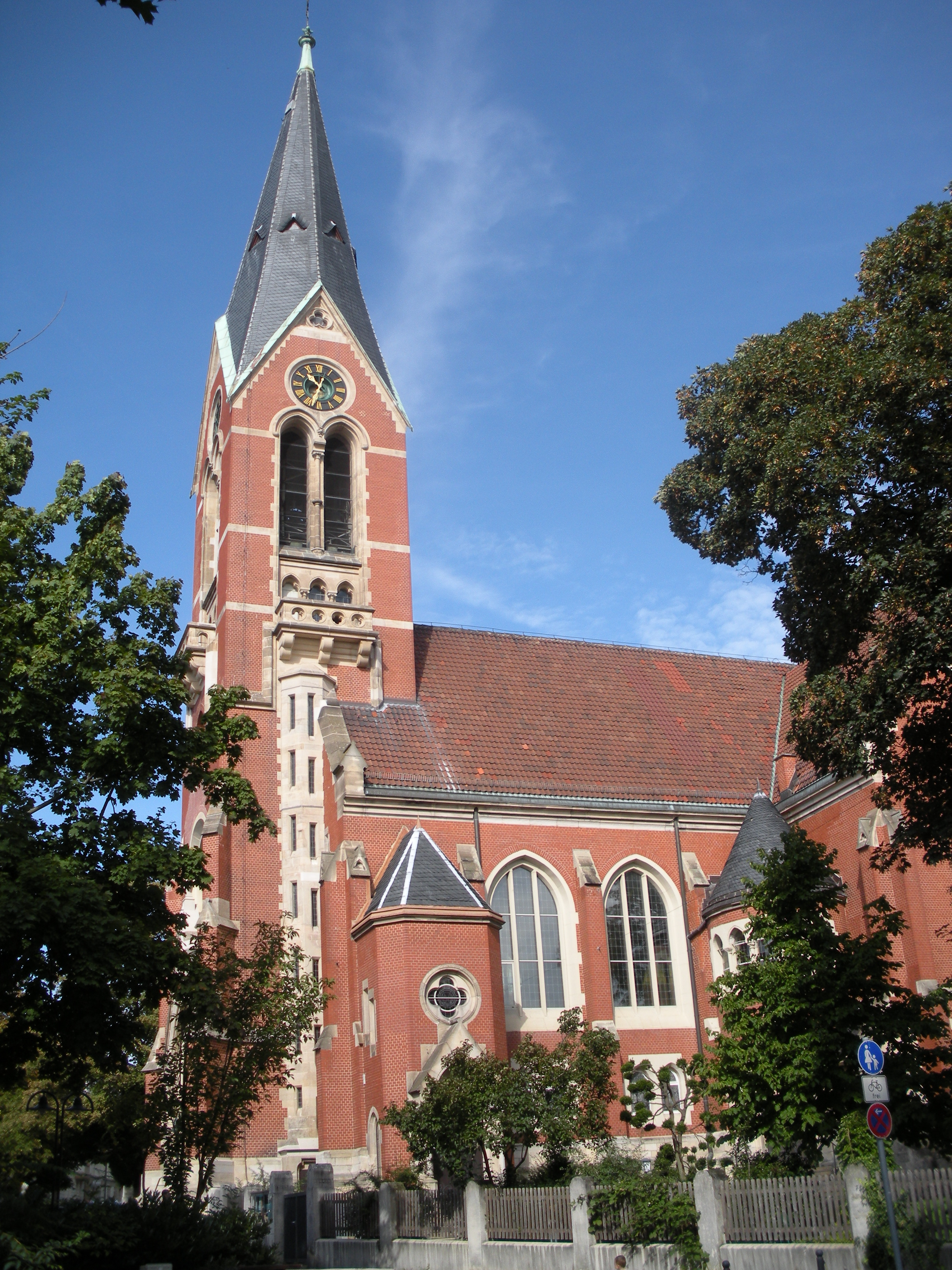 Protestant Church of Luke in Stuttgart-East